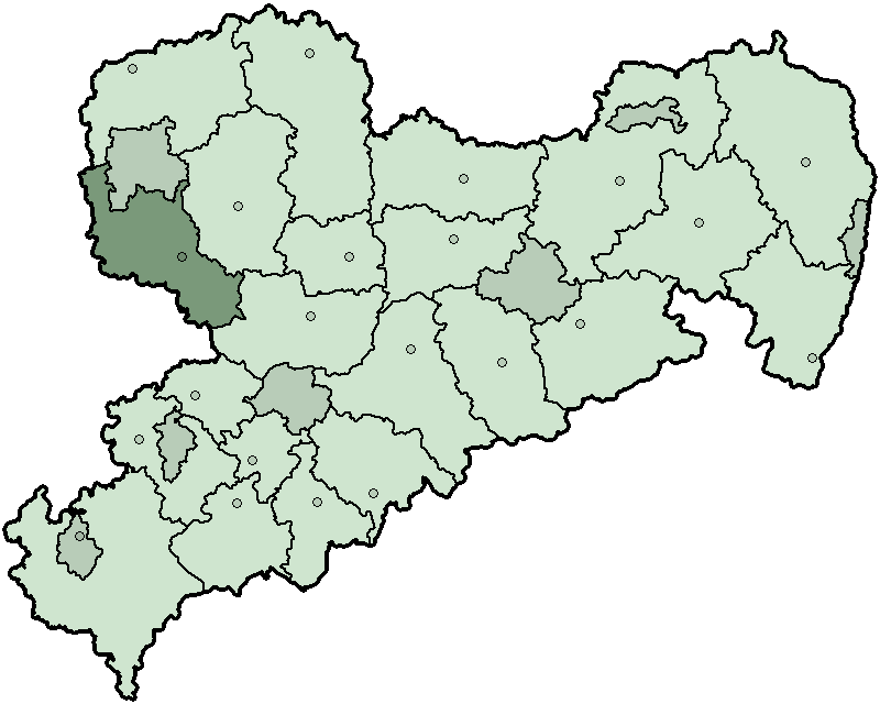 Map of the state Saxony in Germany before 2008, district Leipziger Land highlighted.